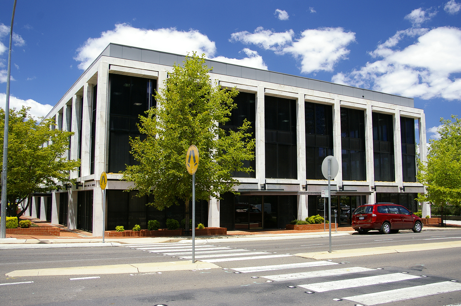 Reserve Bank of Australia located on London Circuit in Canberra, Australian Capital Territory.